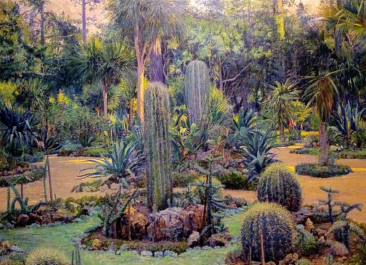 Cactus Garden, Del Monte by Mary Evelyn McCormick, c. 1893